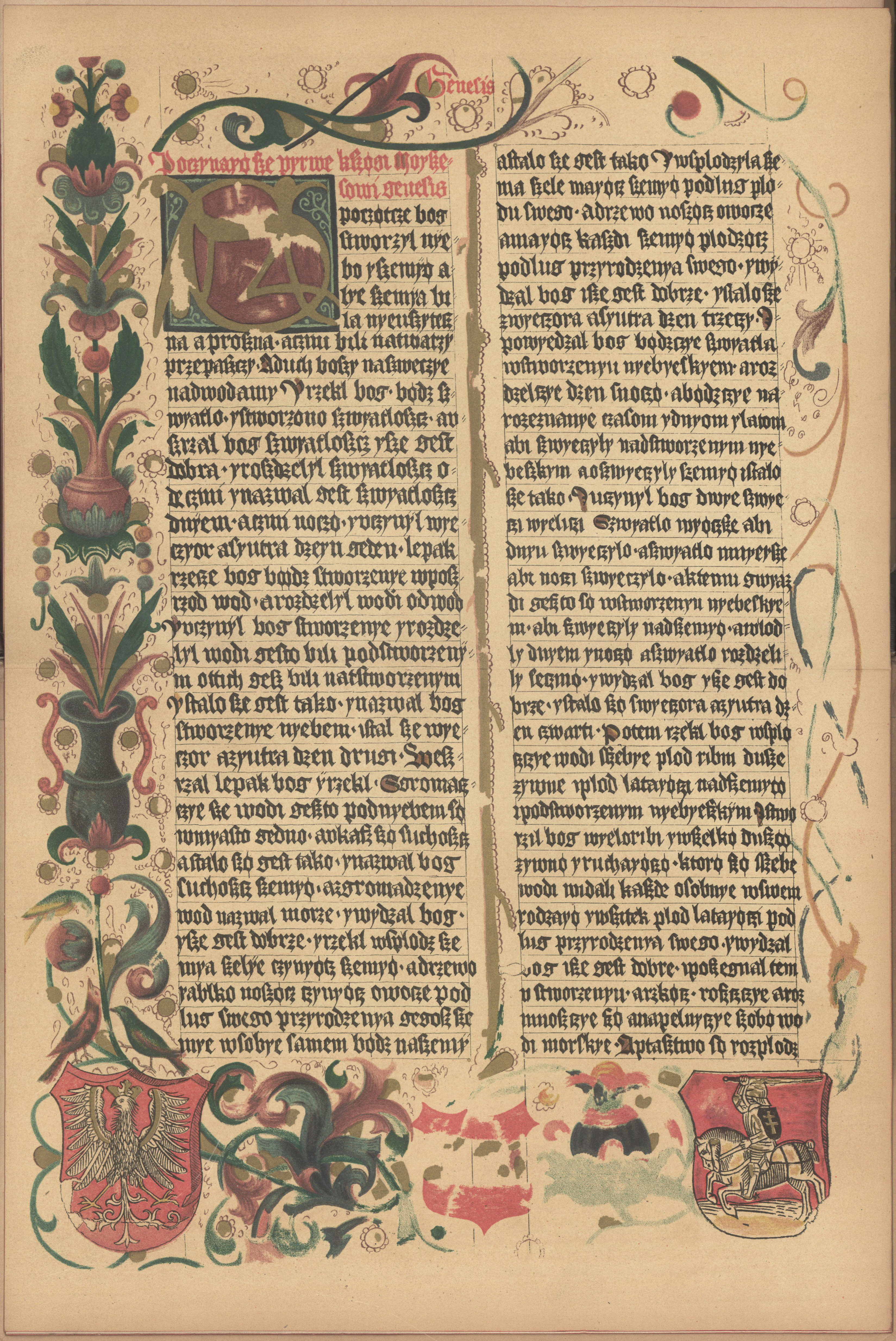 A digital copy of a 19th century reproduction of a medieval manuscript of "The Bible of Queen Sophia (also Sárospatak Bible). It was the oldest surviving translation of the Old Testament into the Polish language.